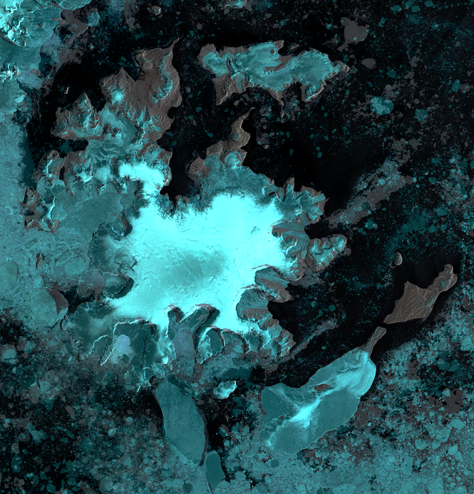 James Ross Island group, northeastern Antarctic Peninsula. Image fusion of a Landsat 8 OLI image, aquired 2017-02-04, and a Sentinel 1A SAR image, acquired 2017-02-06.